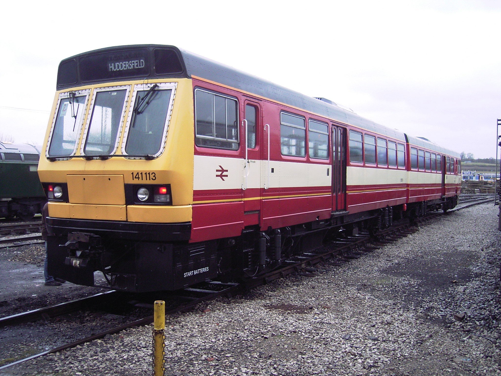 Class 141 Railbus pictured at Swanwick (Midland Railway Centre)